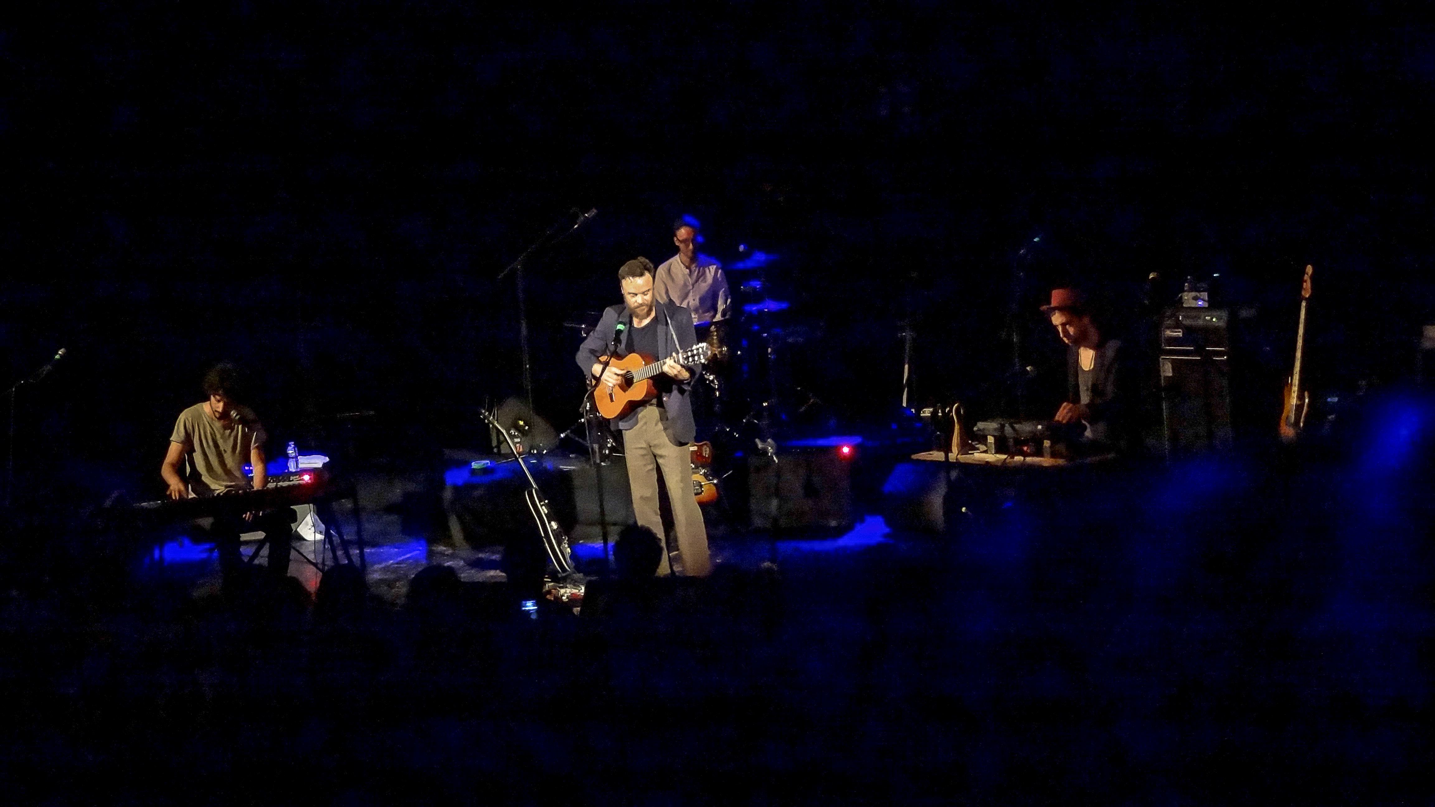 1ère partie du concert de Devendra Banhart au Trianon à Paris - 13 juillet 2013 Vidéos du concert